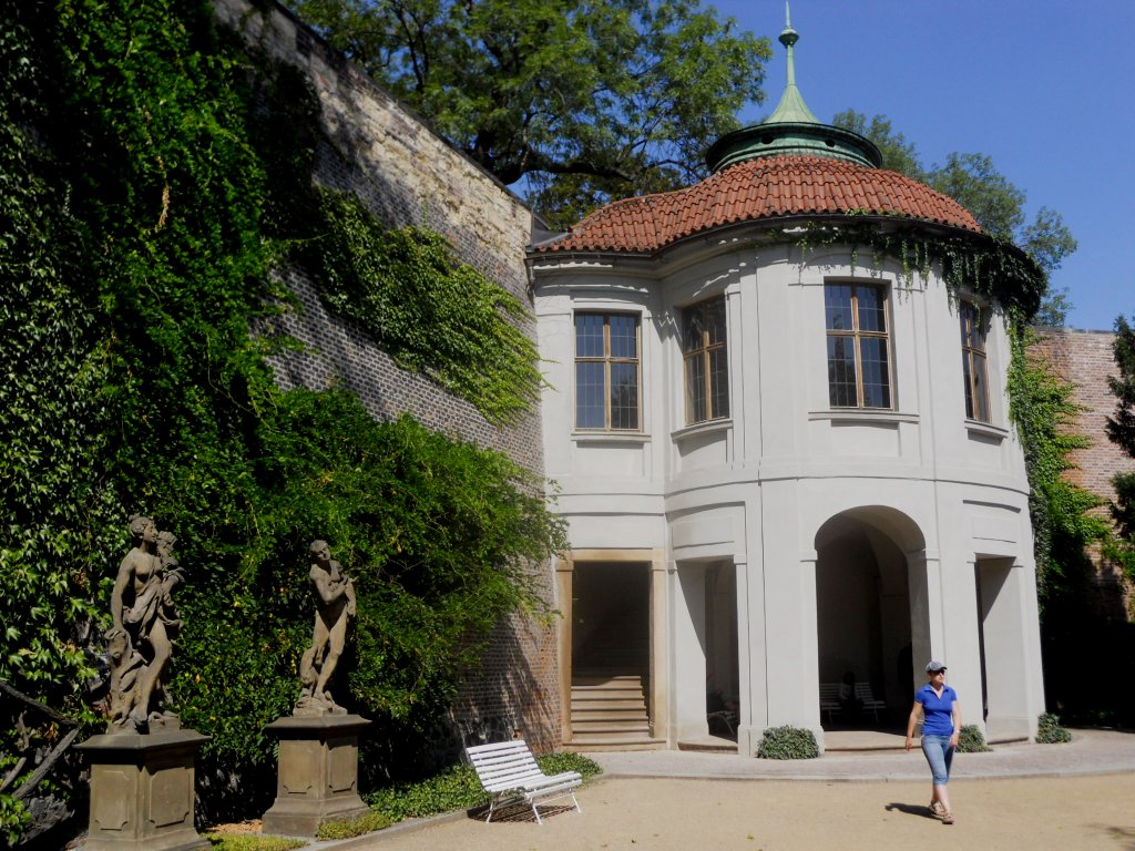 Hartig garden, Prague castle